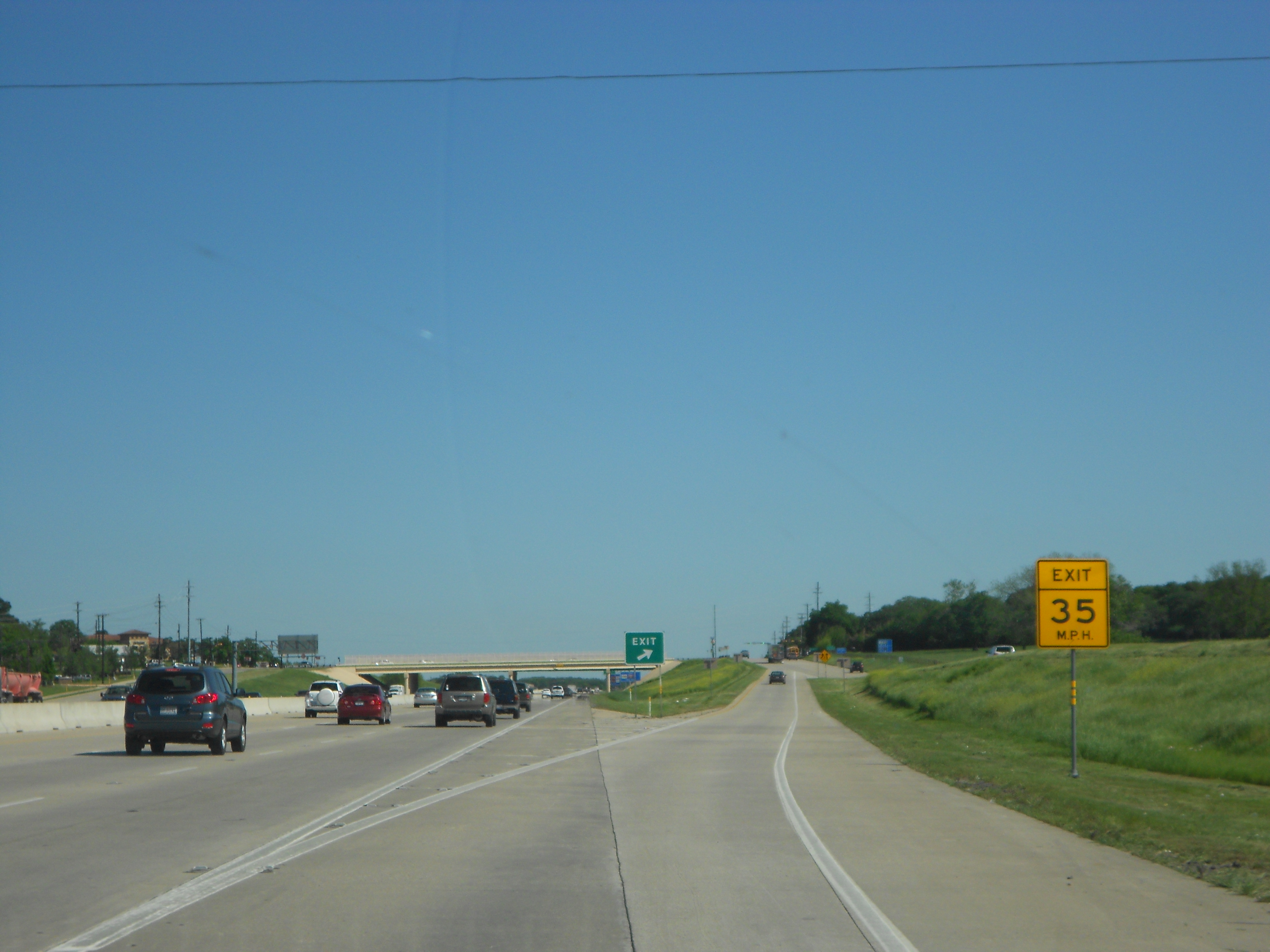 An exit on Texas State Highway 114, while it is in Southlake.